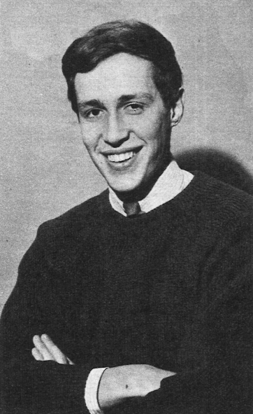 Photograph of the Finnish vocalist and actor Georg Dolivo (1945–).